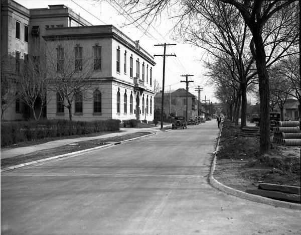 New Orleans, 1937. "Completed pavement of Orleans Street in front of the French Hospital. Exterior." Photo illustrating Works Progress Administration street improvement program; hospital of la Société Française de Bienfaisance, commonly known as "the French Hospital", seen at left.